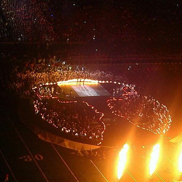 Halftime show only highlight so far...come on niners, we got dis!!!